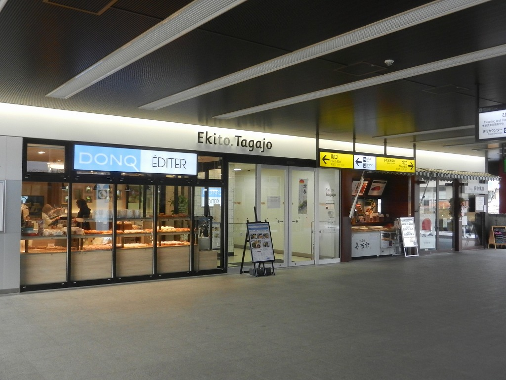 shopping mall "Ekito Tagajo"(JR East Senseki-line Tagajo station,Tagajo,Miyagi,Japan)